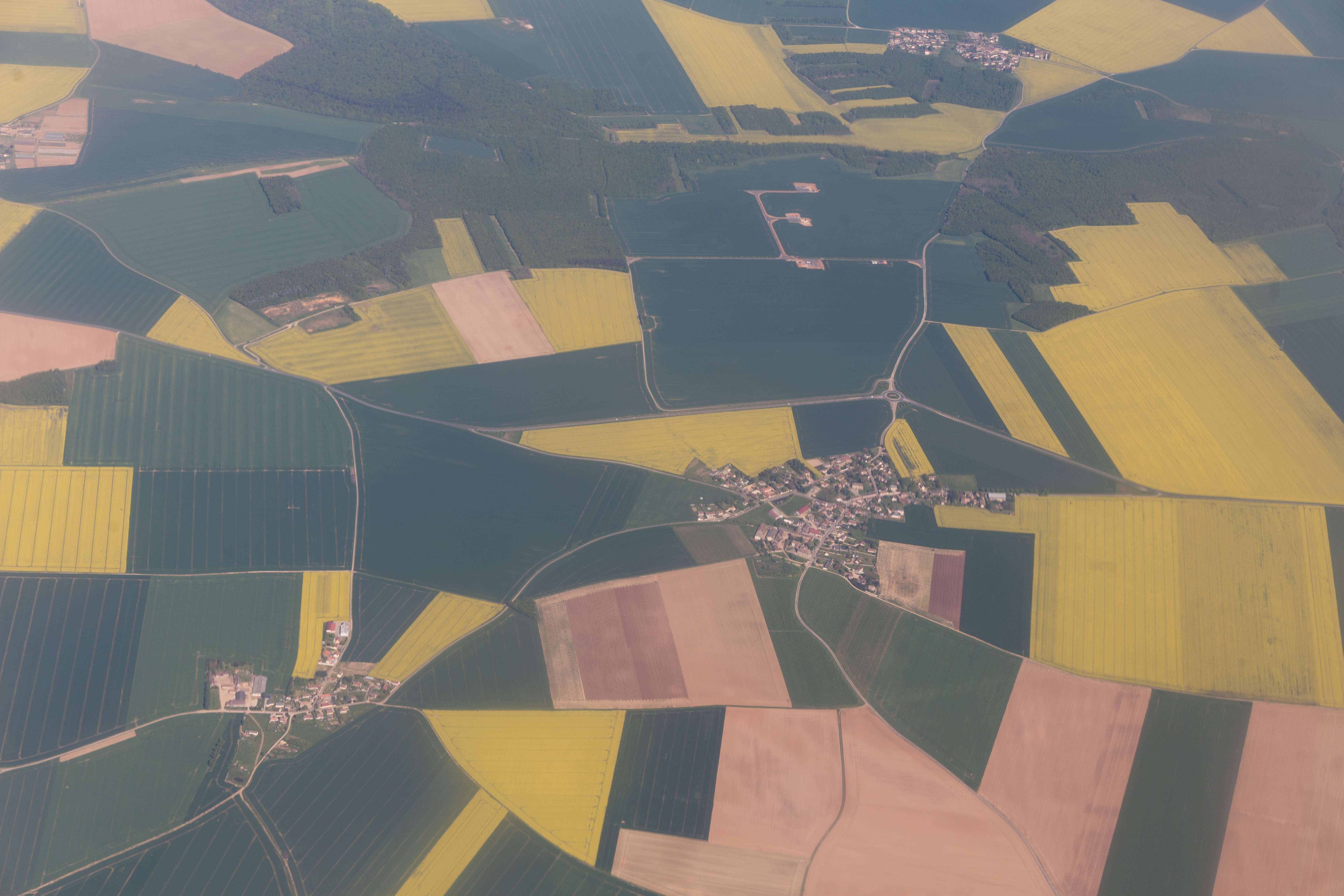 Aerial view of Ormoy during a flight between RNS and CDG.